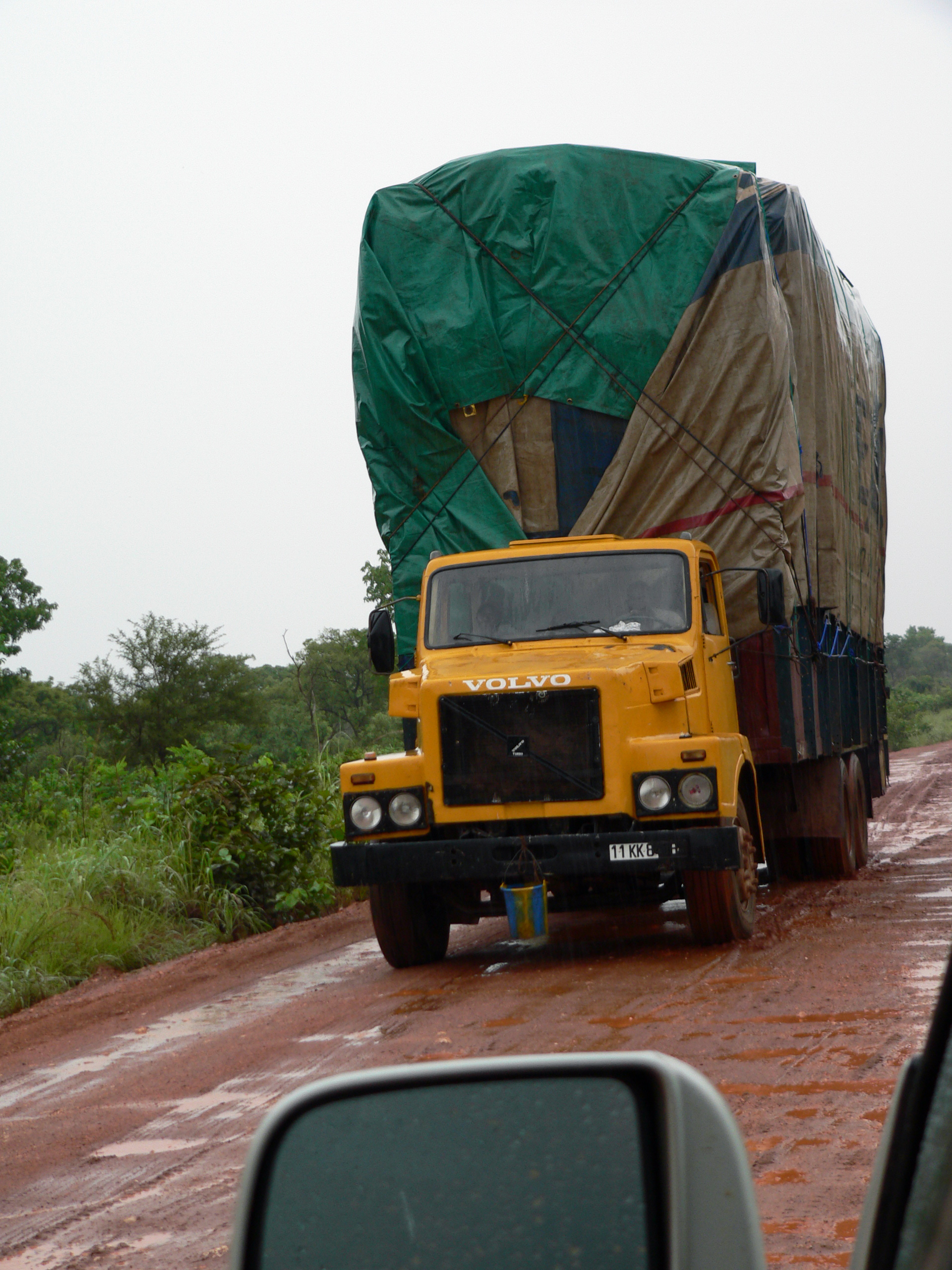 We saw quite a lot of trucks fallen in the roadside. I wonder why?High load...